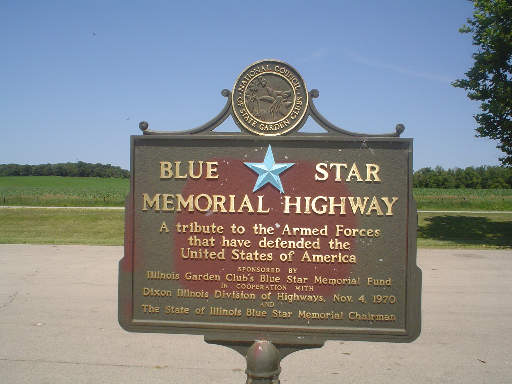 A sign showing that Illinois Route 2 is a Blue Star Memorial Highway. This sign is located just over the Winnebago County border in a rest area in Ogle County, Illinois, USA.